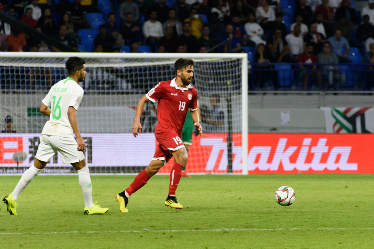 Match scene of Lebanon vs Saudi Arabia (Asian Cup 2019)